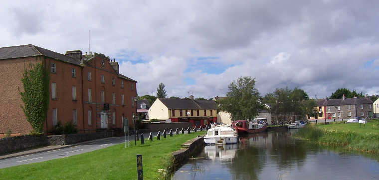 Robertstown in County Kildare, Ireland, showing the Grand Canal and Grand Canal Hotel